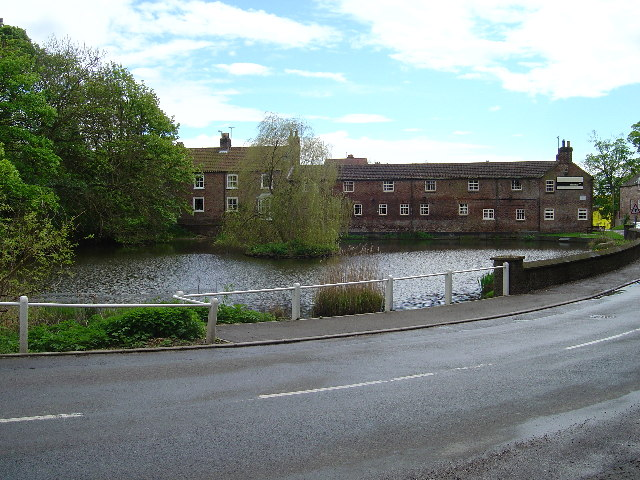 Village pond at North Dalton, East Riding of Yorkshire, England.A view from below the church. The building in the background is The Star public house which has recently re-opened.